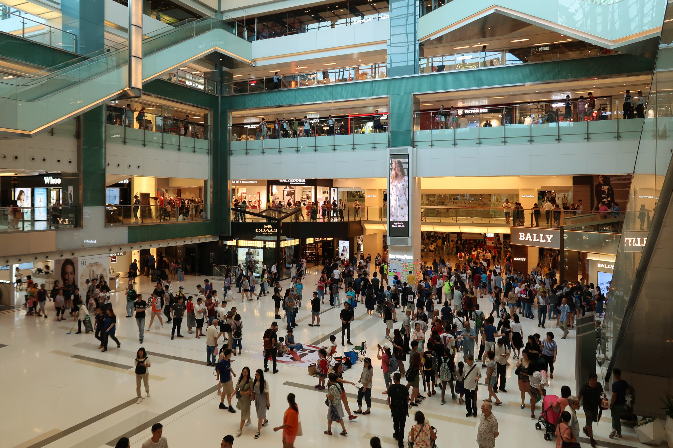 8·23 罷買日 in New Town Plaza